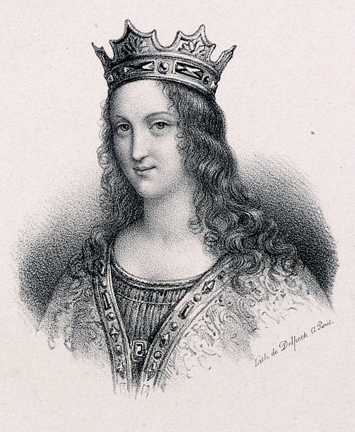 imaginary portrait of Adelaide-Blanche of Anjou, wife of King Louis V